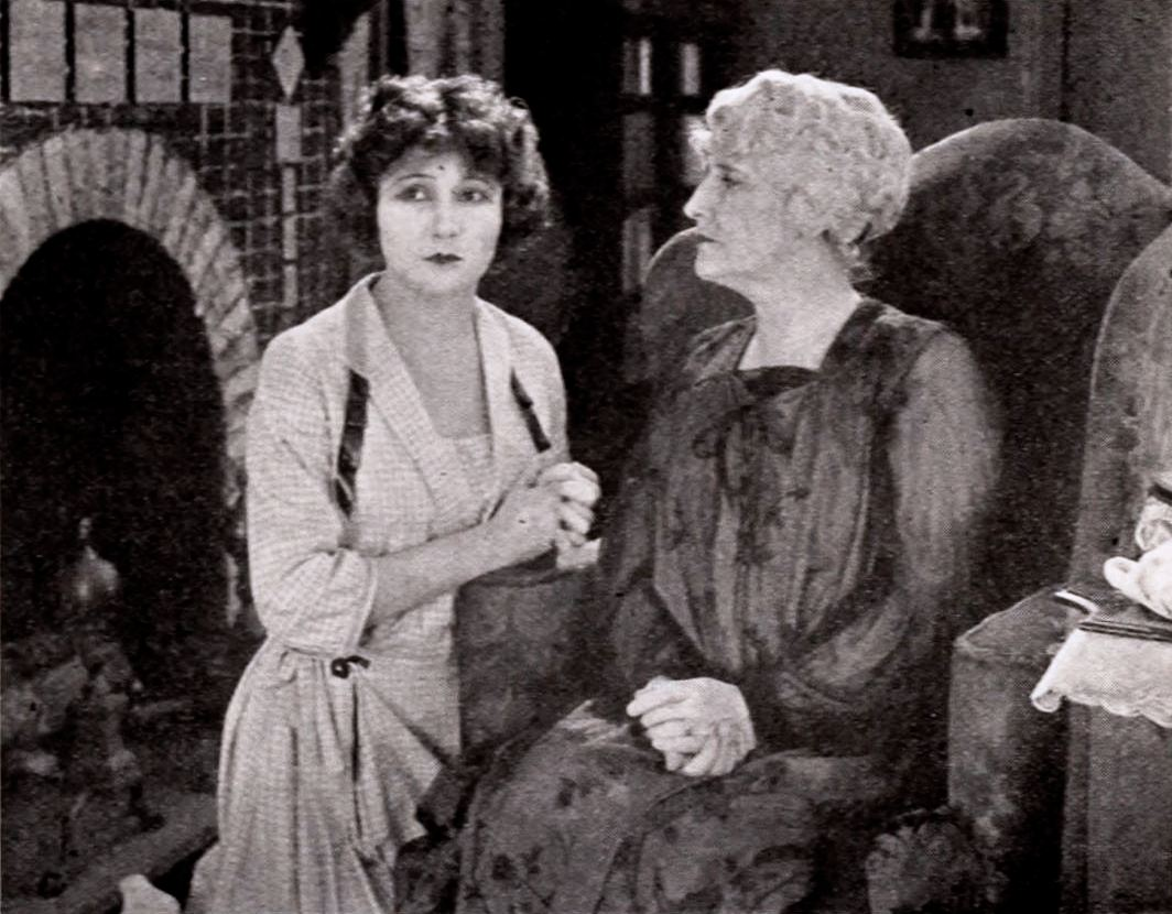 Still from the American drama film A Pasteboard Crown (1922) with Evelyn Greeley and Jane Jennings, on page 75 of the January 28, 1922 Exhibitors Herald.